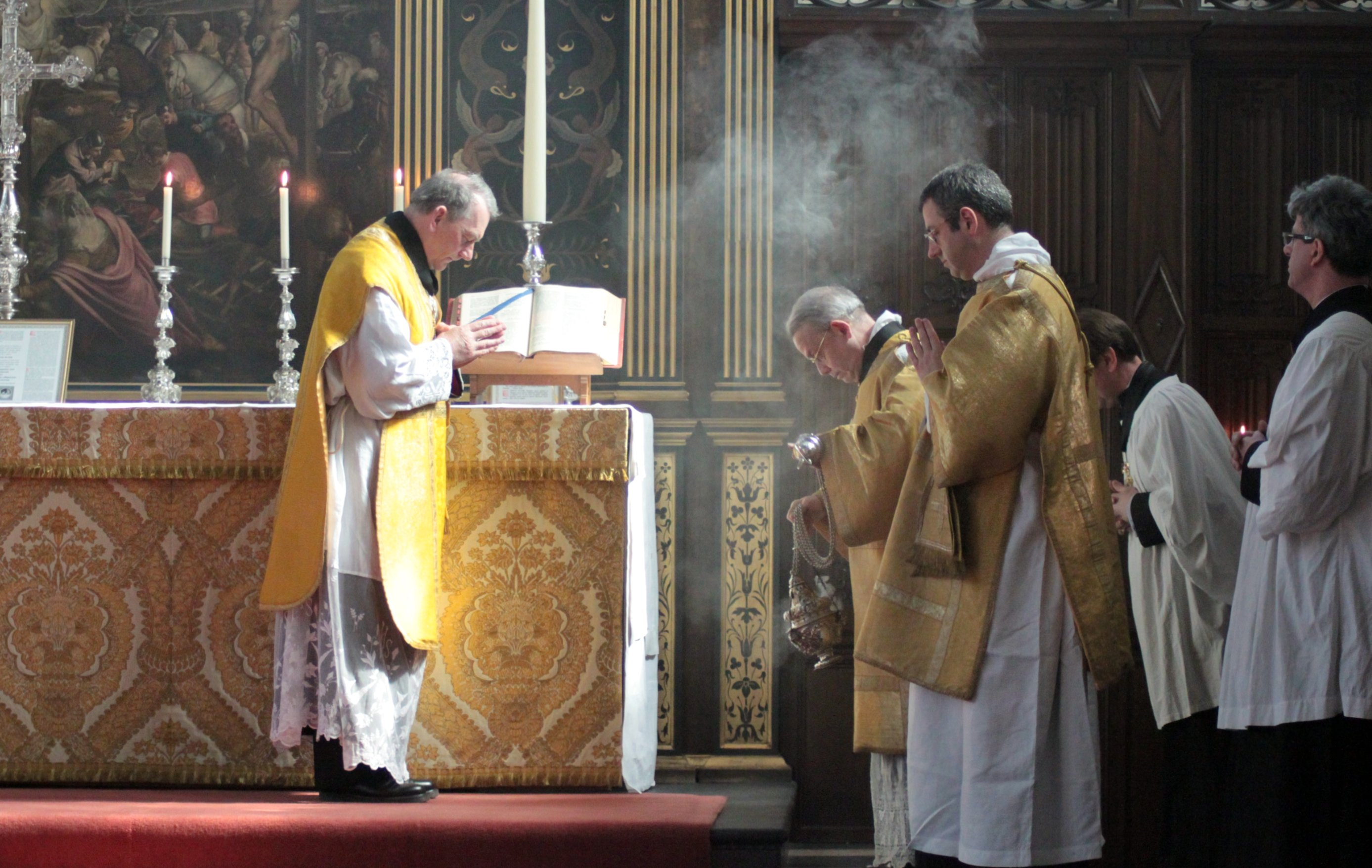 The celebrant is honoured with incense